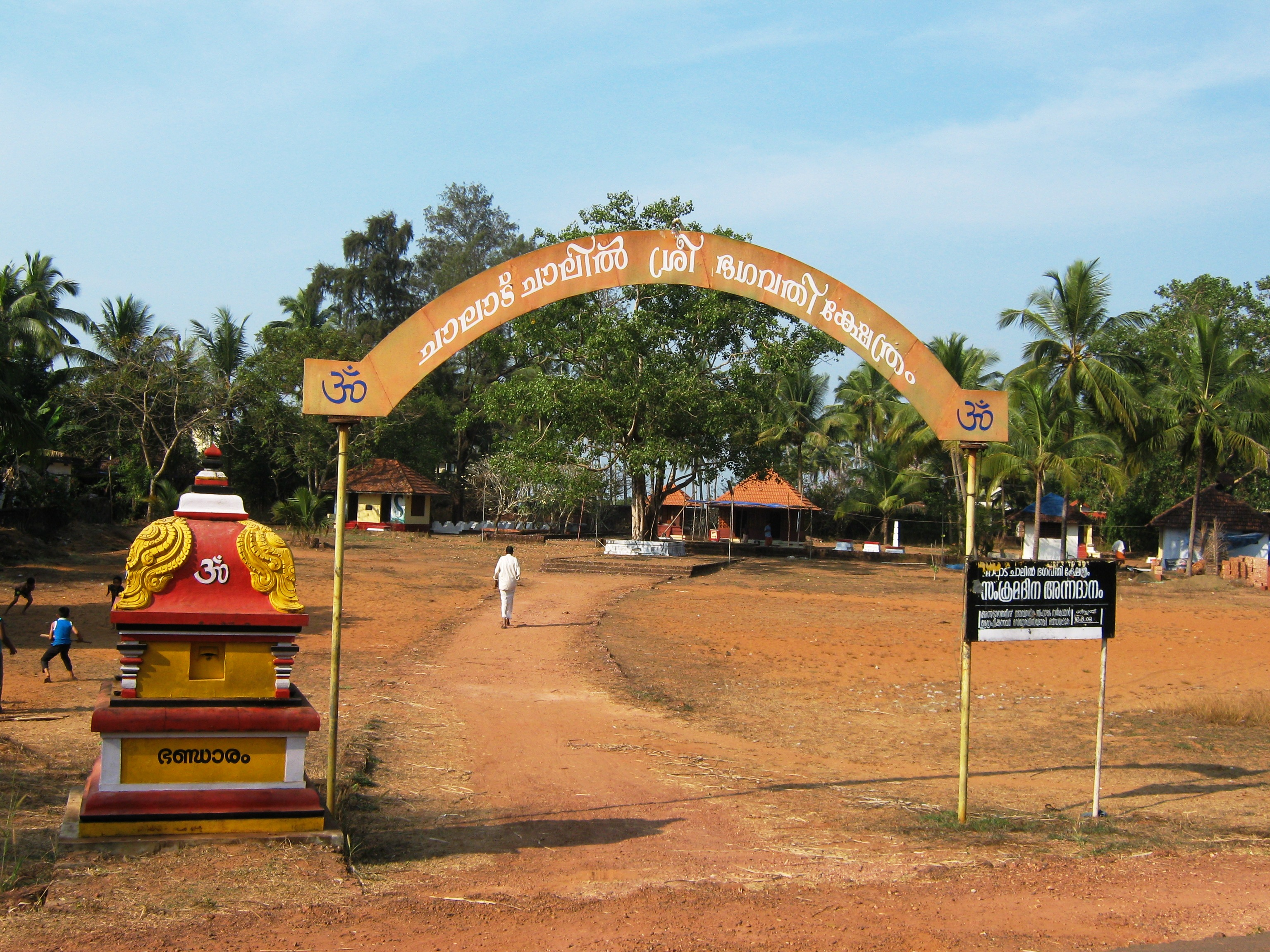 Chalad Chalil Sree Bhagawathi Temple